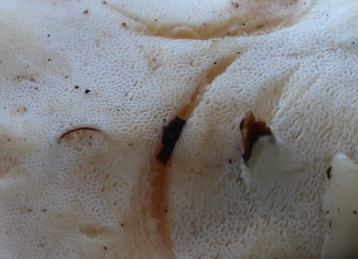 Pore surface of the pored fungus Loweomyces fractipes. Photographed in Rock Island State Park, Warren Co., Tennessee, USA.